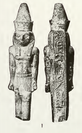 Small pottery statue resembling Horus, bearing the cartouches of Menkheperre Necho I (XXVI dynasty), now in the Petrie Museum.